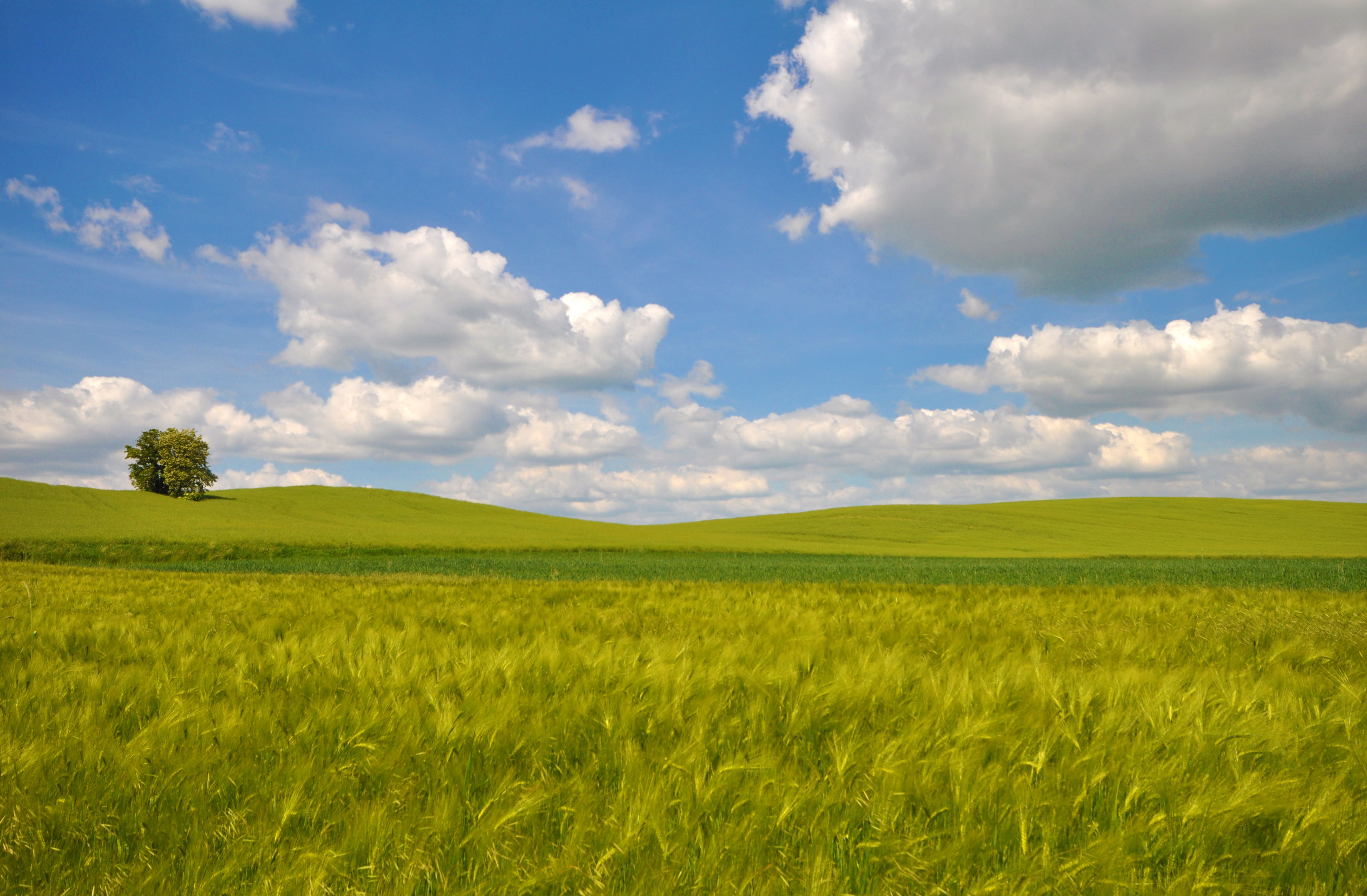 corn field near Günterberg (Uckermark)